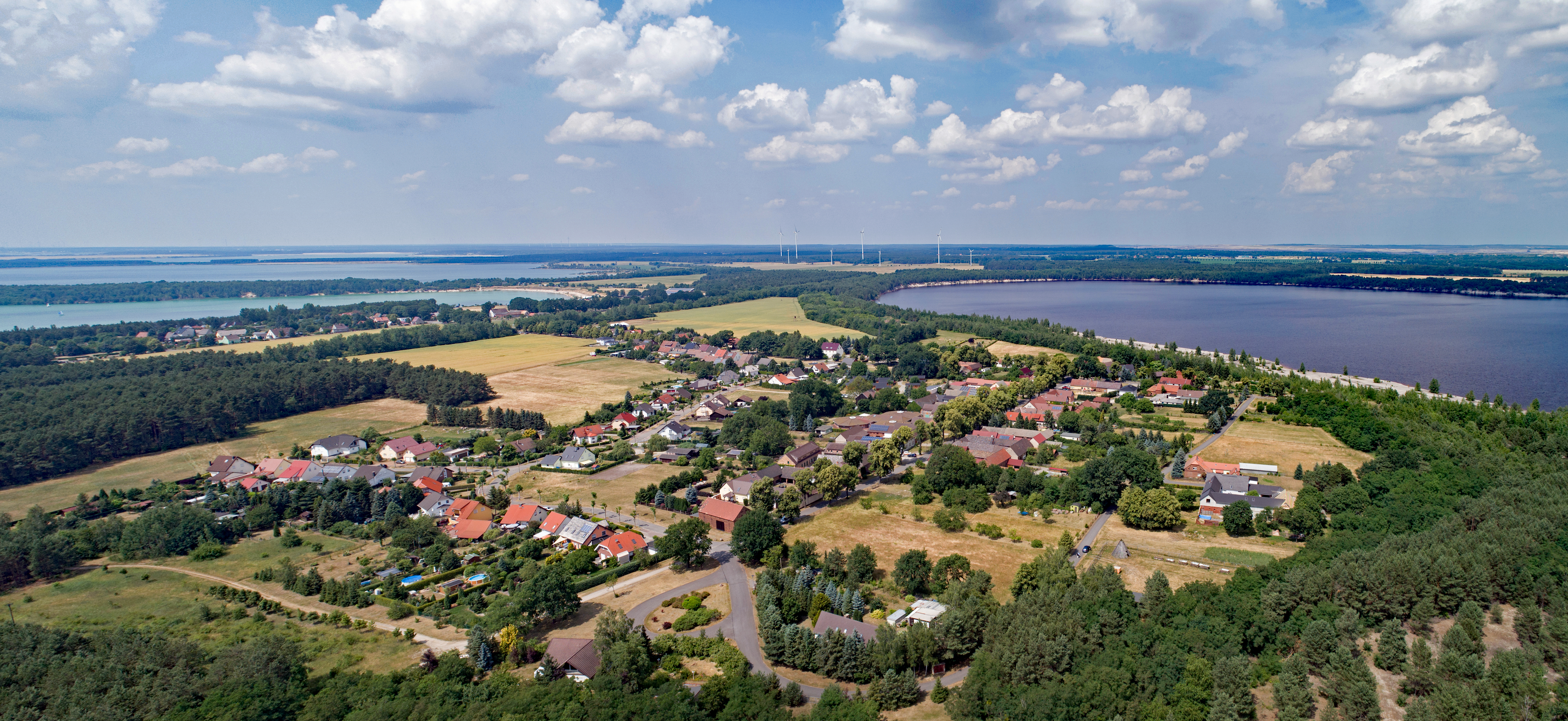 Klein Partwitz (Elsterheide, Saxony, Germany) Hornjoserbsce: Powětrowy wobraz Bjezdowow